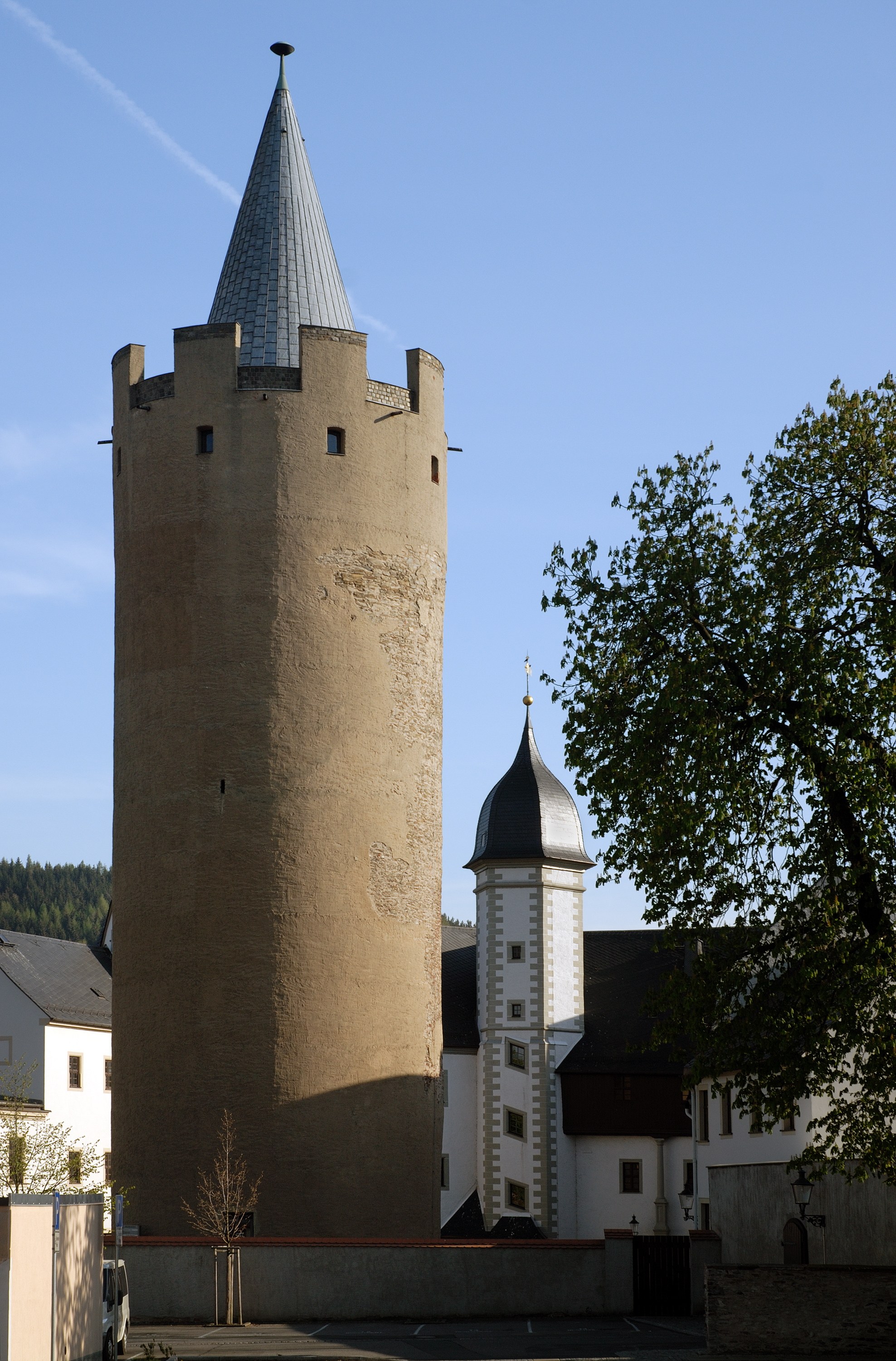 This image shows the keep of the castle Wildeck in Zschopau, Germany.